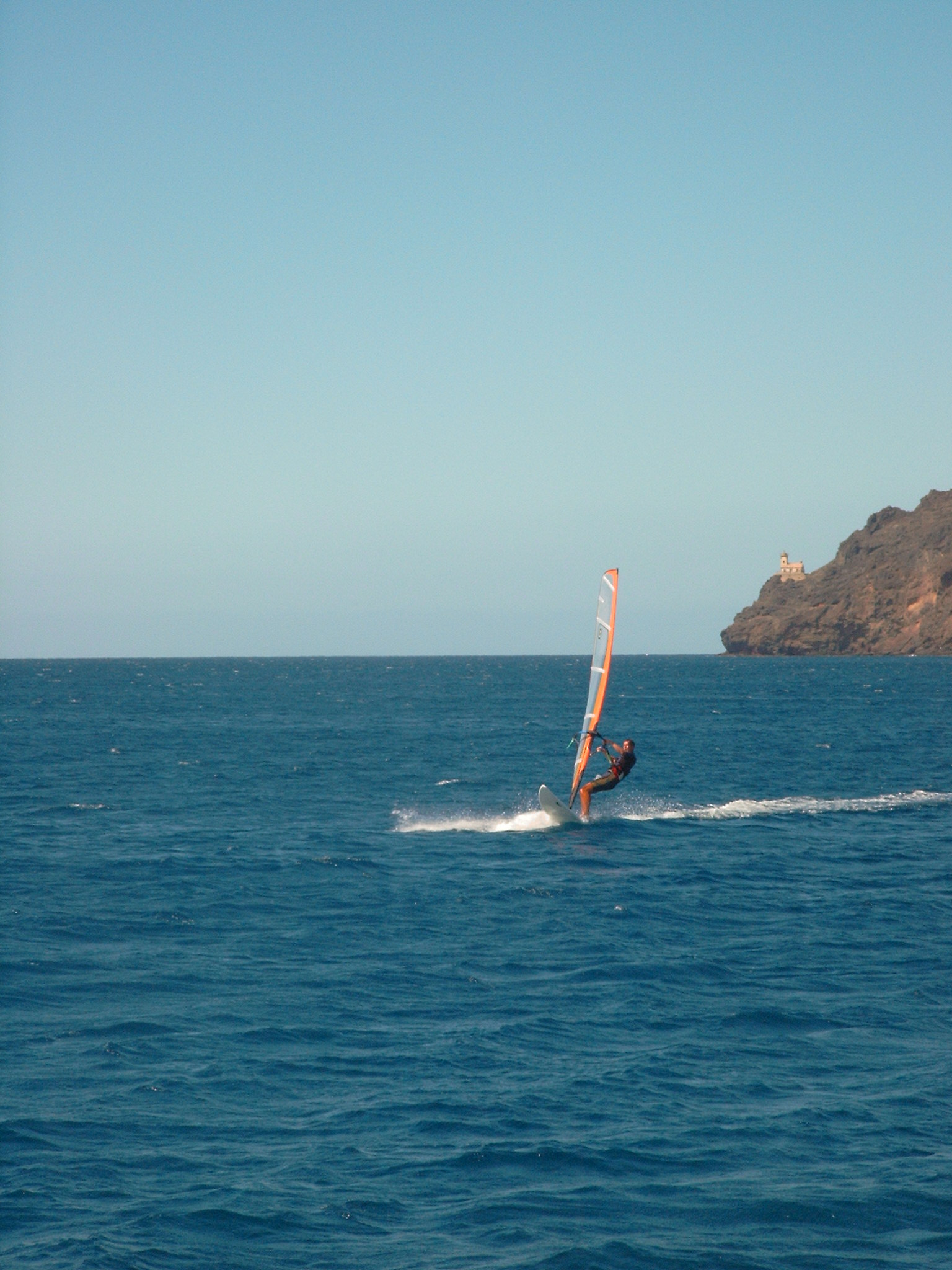 Wind surfing in Cape Verde